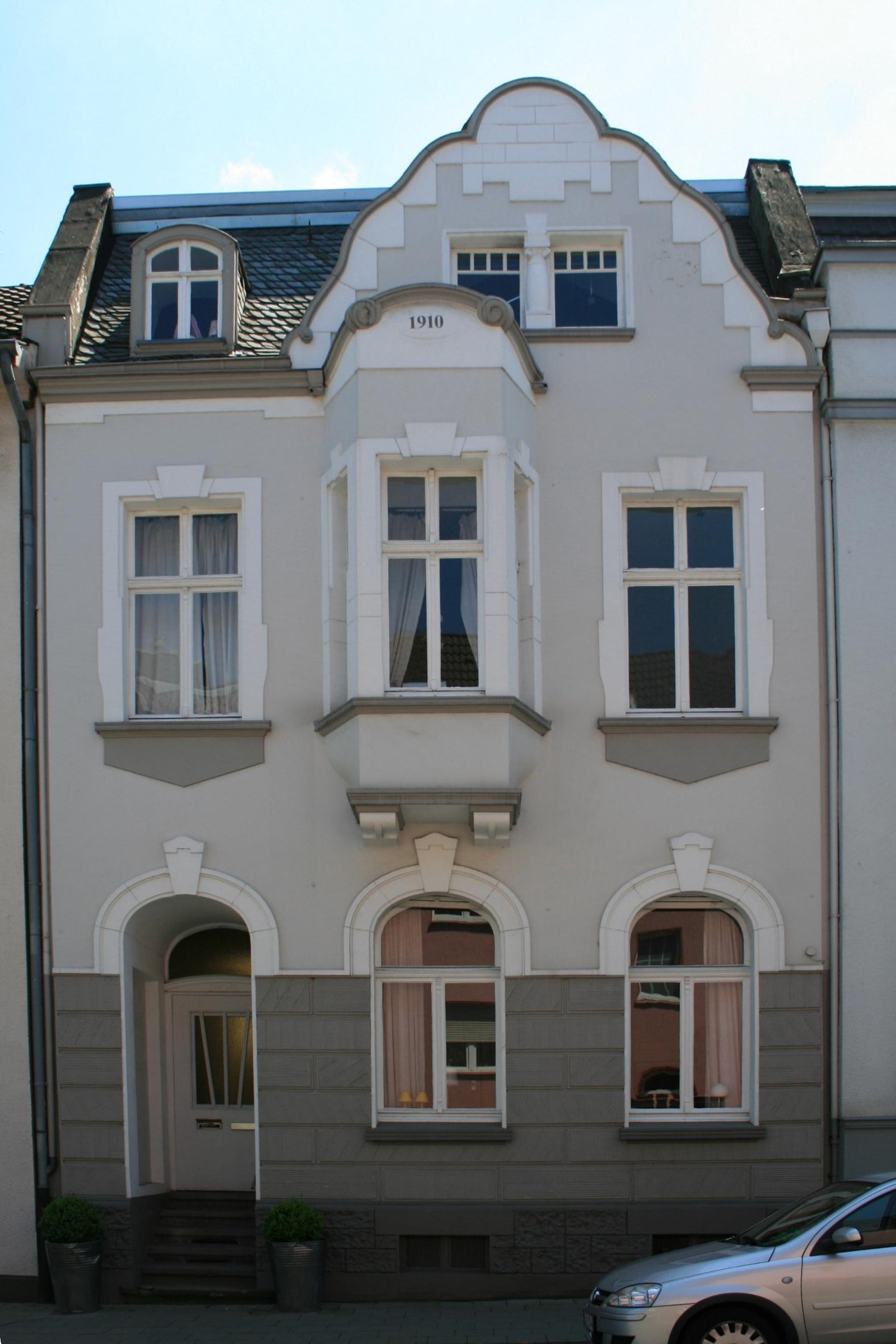 Cultural heritage monument No. P 017 in Mönchengladbach